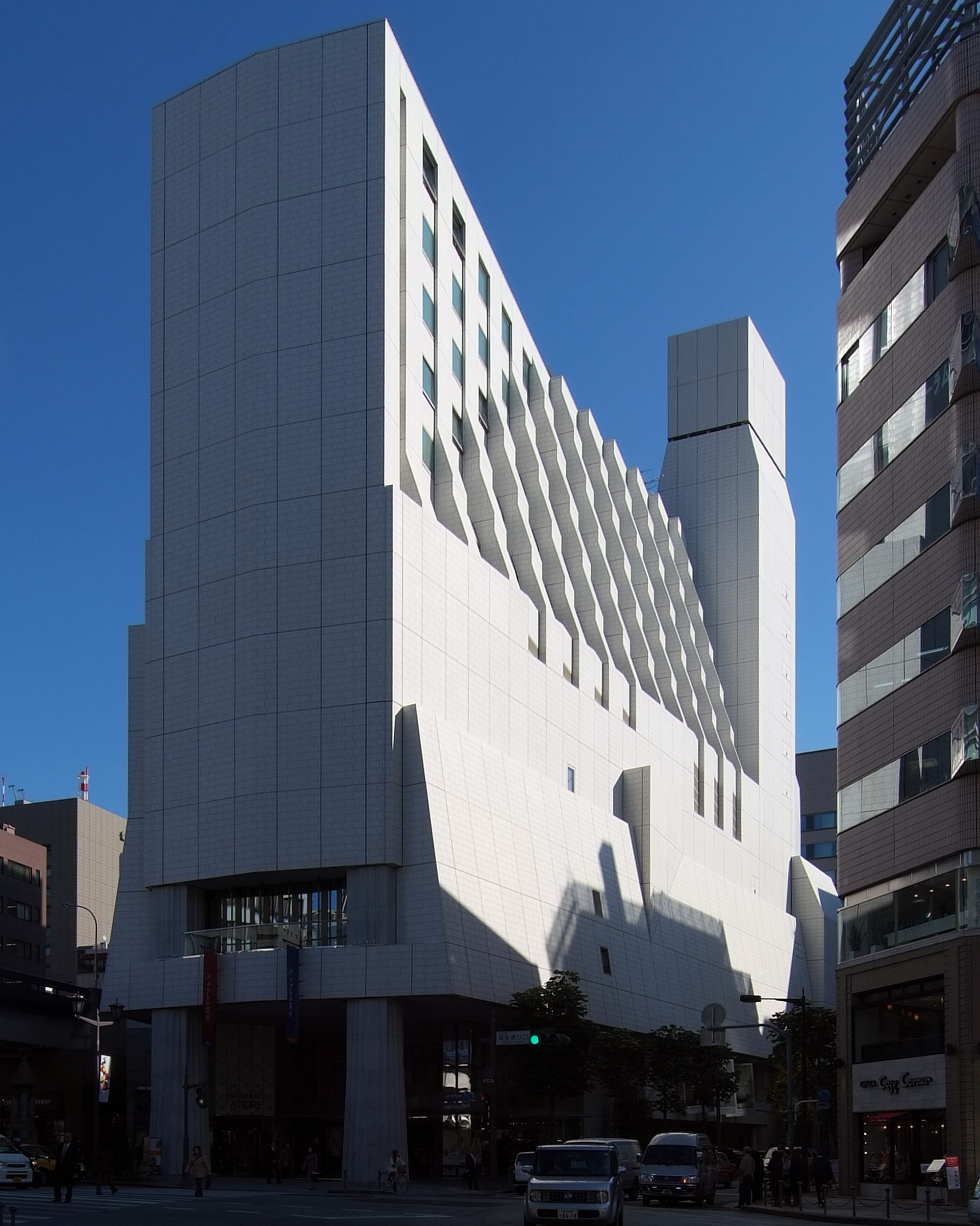 Ginza Theatres Building, at Ginza Tokyo Japan, design by Kiyonori Kikutake in 1987.